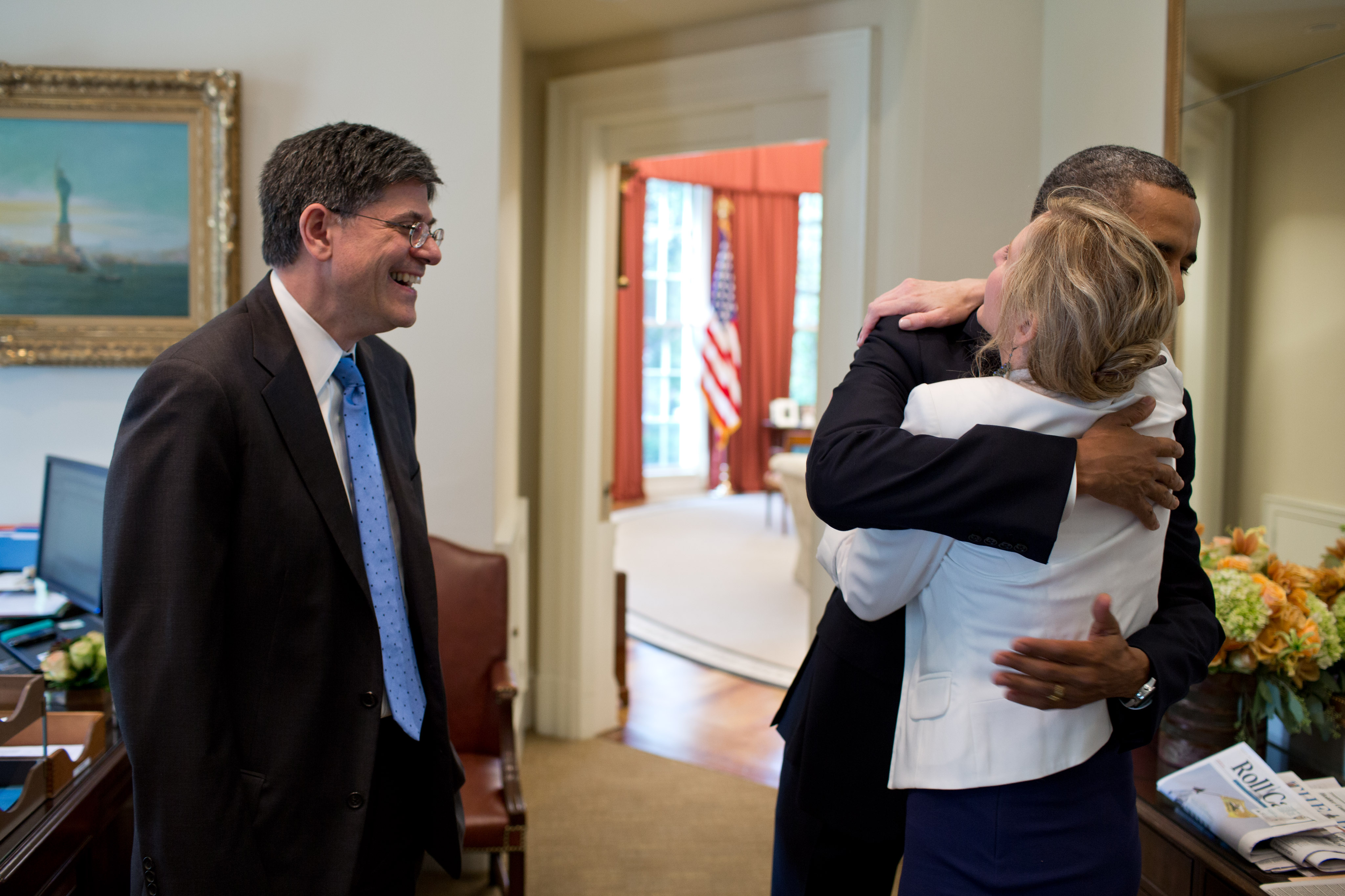 President Barack Obama is congratulated by Chief of Staff Jack Lew and Kathryn Ruemmler, Counsel to the President, after learning of the Supreme Court's ruling on the “Patient Protection and Affordable Care Act,” June 28, 2012.